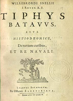 Frontispiece of Willebrord Snellius' Tiphys Batavus.